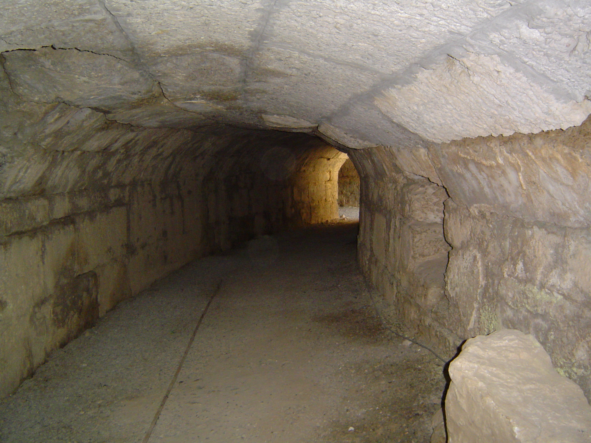 The Ancient Roman theater in Aspendos, Turkey.